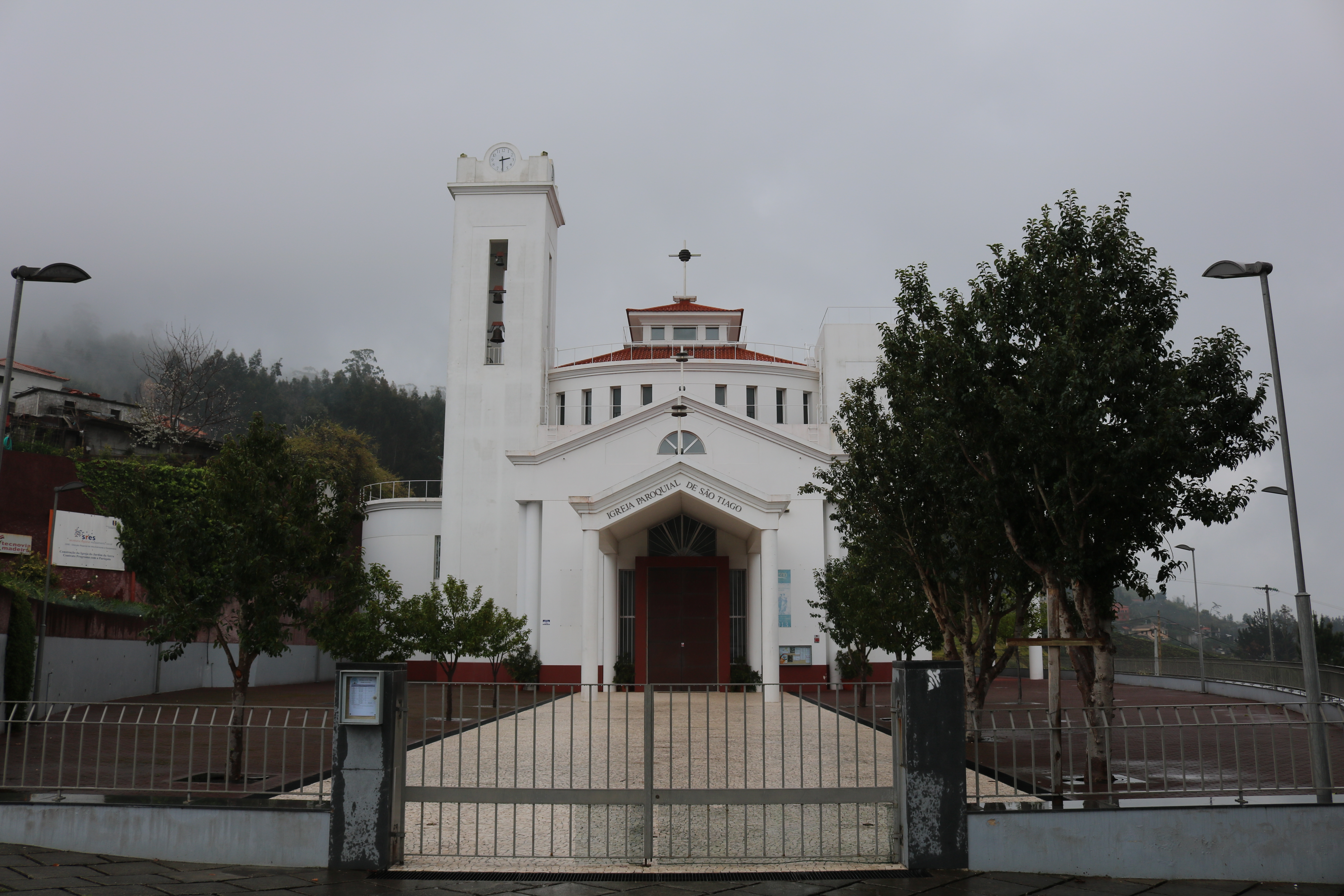 The main church of Jardim da Serra, which has a simple architecture